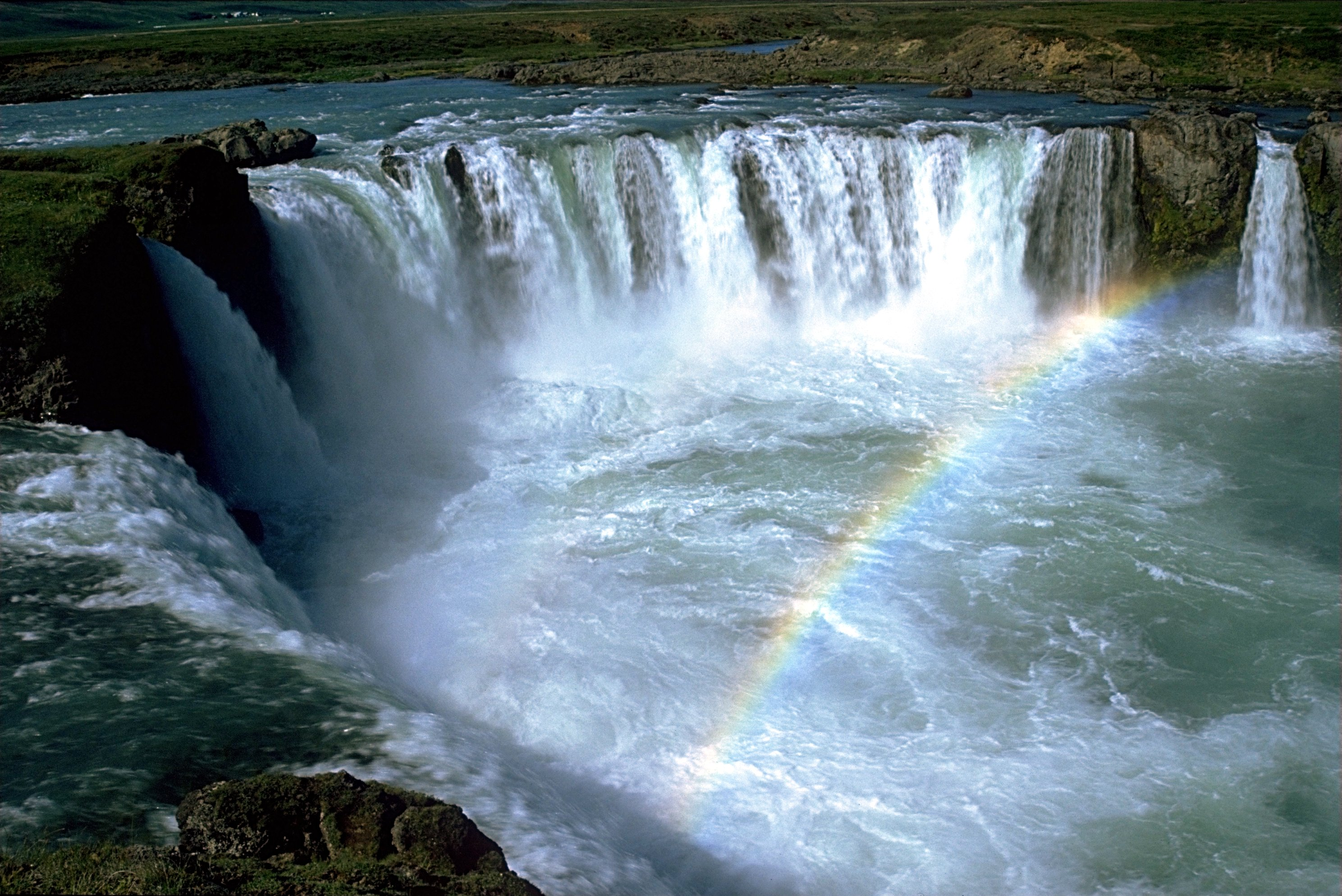 Overview of Góðafoss, Iceland Photo was taken using the following technique: Film: Fuji Velvia Lens: 2.8/28 Filter: Polarisation Body: Minolta 7 Support: Manfrotto 190B Image with Information in English Bild mit Informationen auf Deutsch